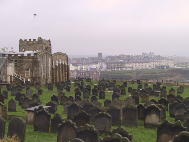 Gravestones, St Mary's Church